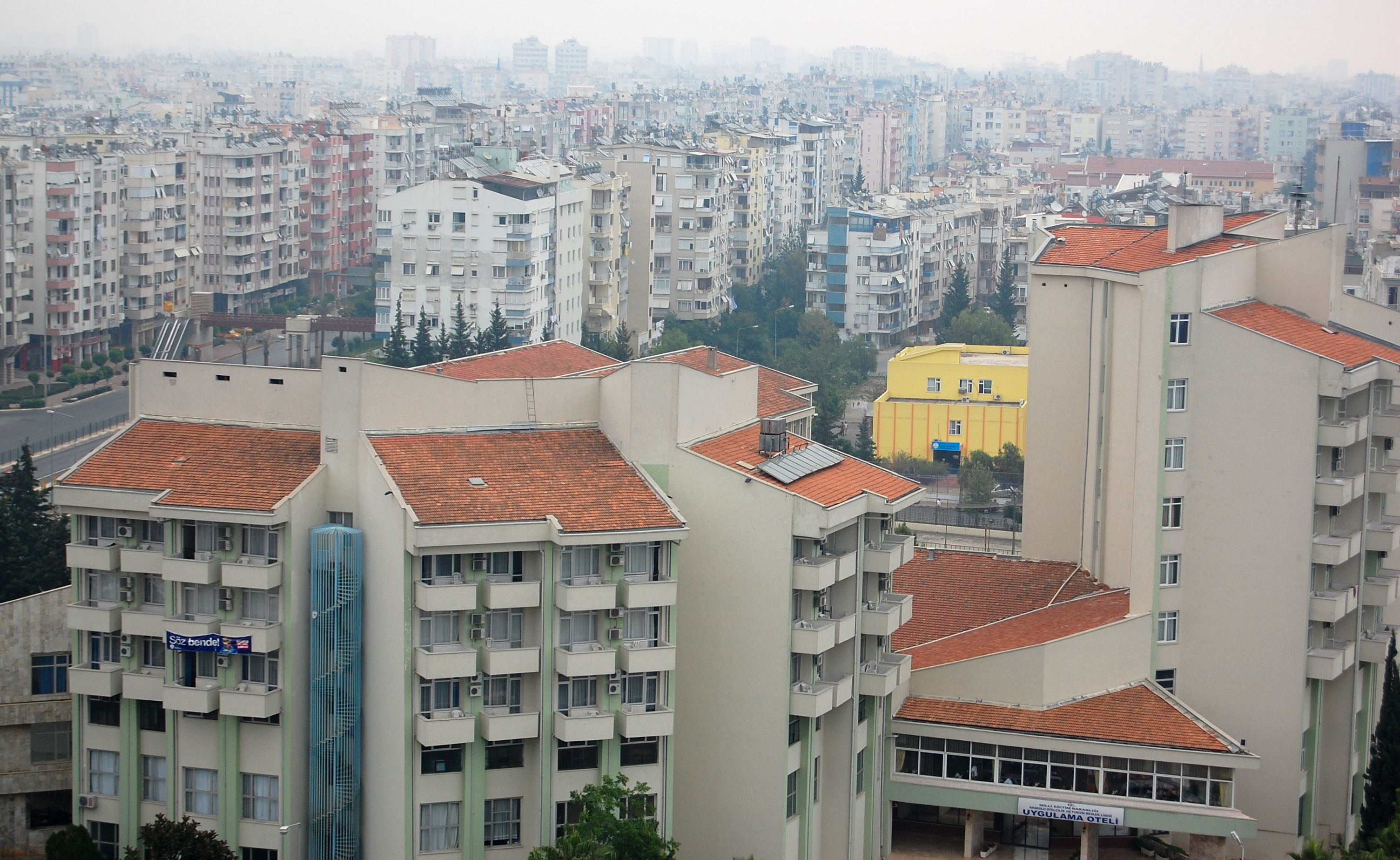 Antalya, Turkey, foggy morning